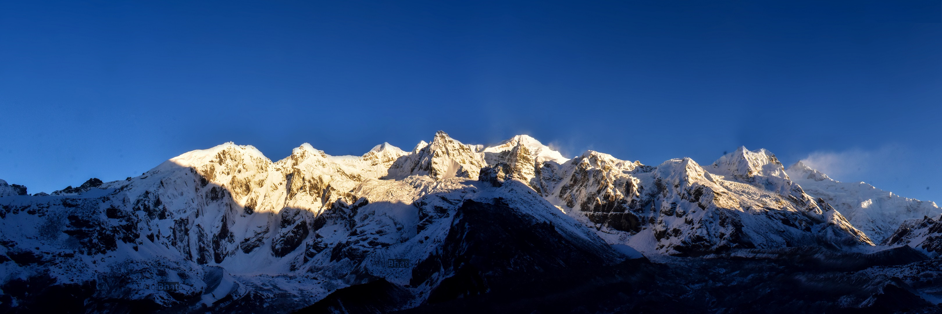 Panoramic view from Goecha La. Mt. Kanchenjunga can be seen on the right end with snow blowing off of its summit.